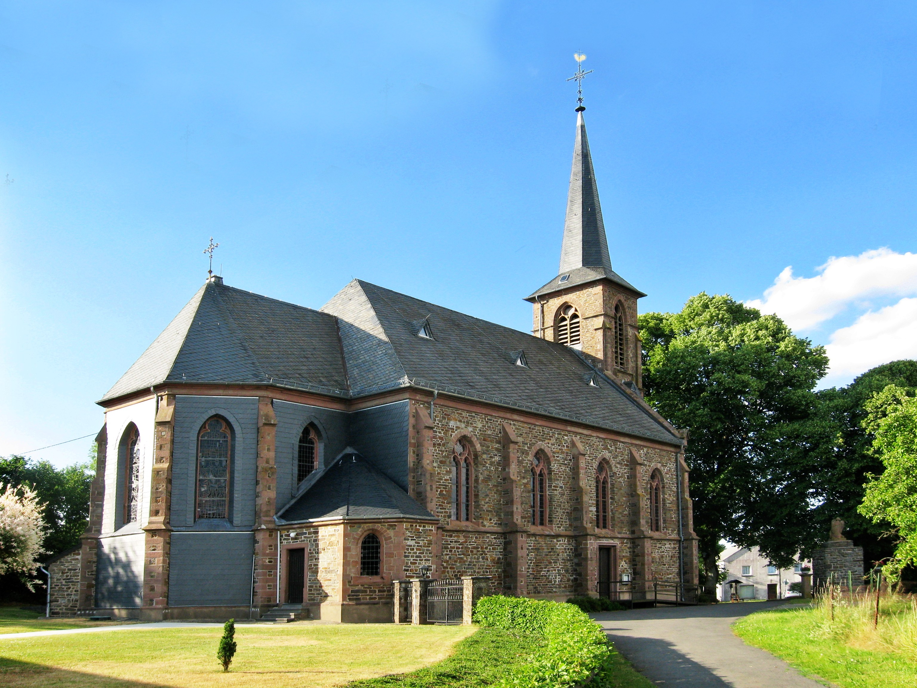 Church in Winterspelt